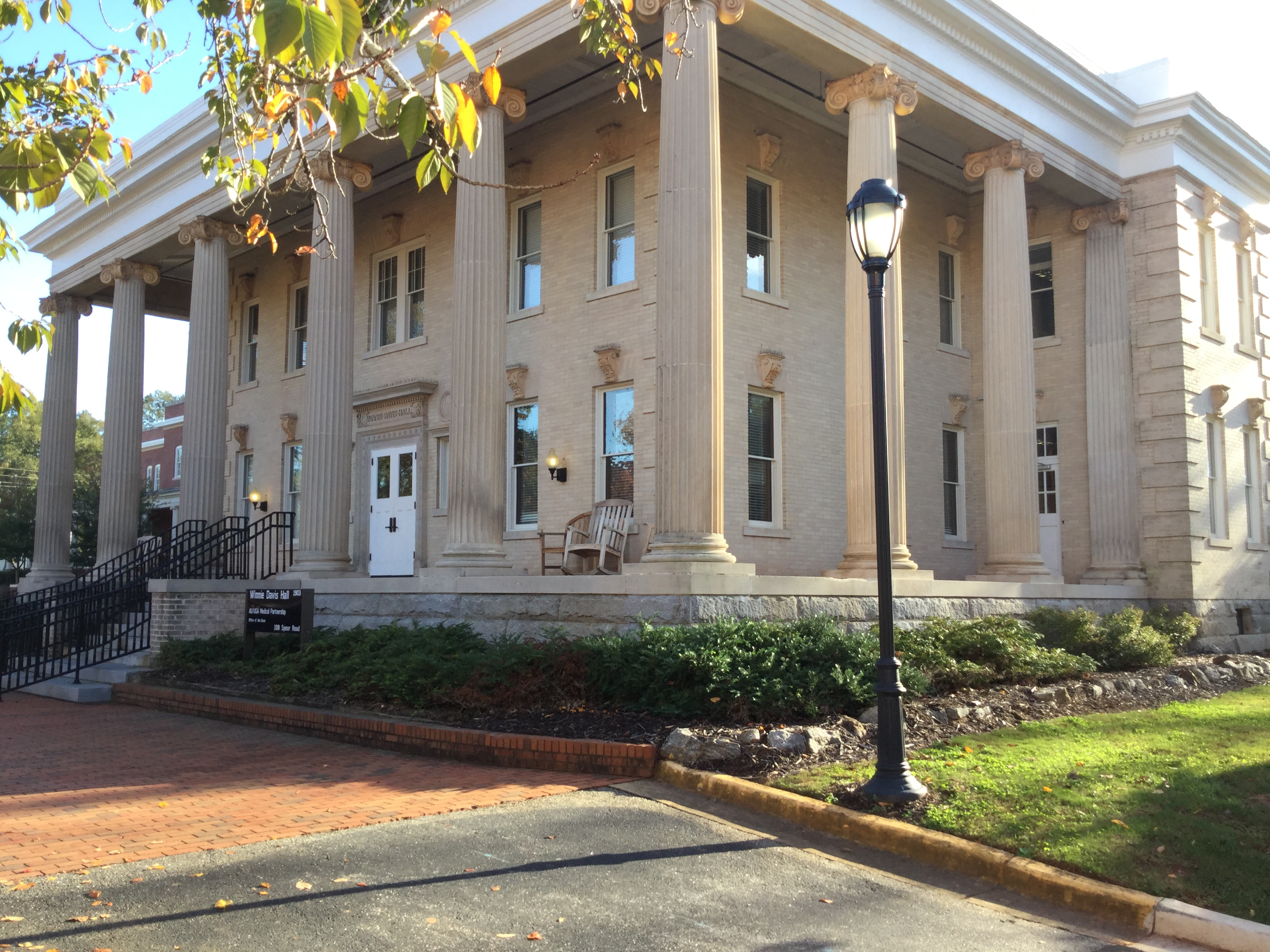 This a building located on University of Georgia Health Sciences Campus in Athens, Georgia, USA